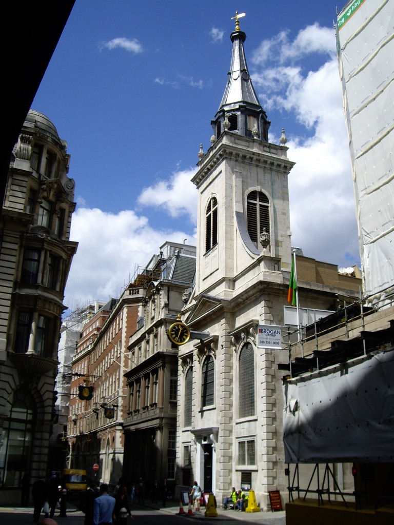 Copyright (c) 2007 PhilipLS. Permission is granted to copy, distribute and/or modify this document under the terms of the GNU Free Documentation License, Version 1.2 or any later version published by the Free Software Foundation; with no Invariant Sections, no Front-Cover Texts, and no Back-Cover Texts. A copy of the license is included in the section entitled "GNU Free Documentation License". Caption Church of St Edmund the King and Martyr, Lombard Street, London in July 2007.